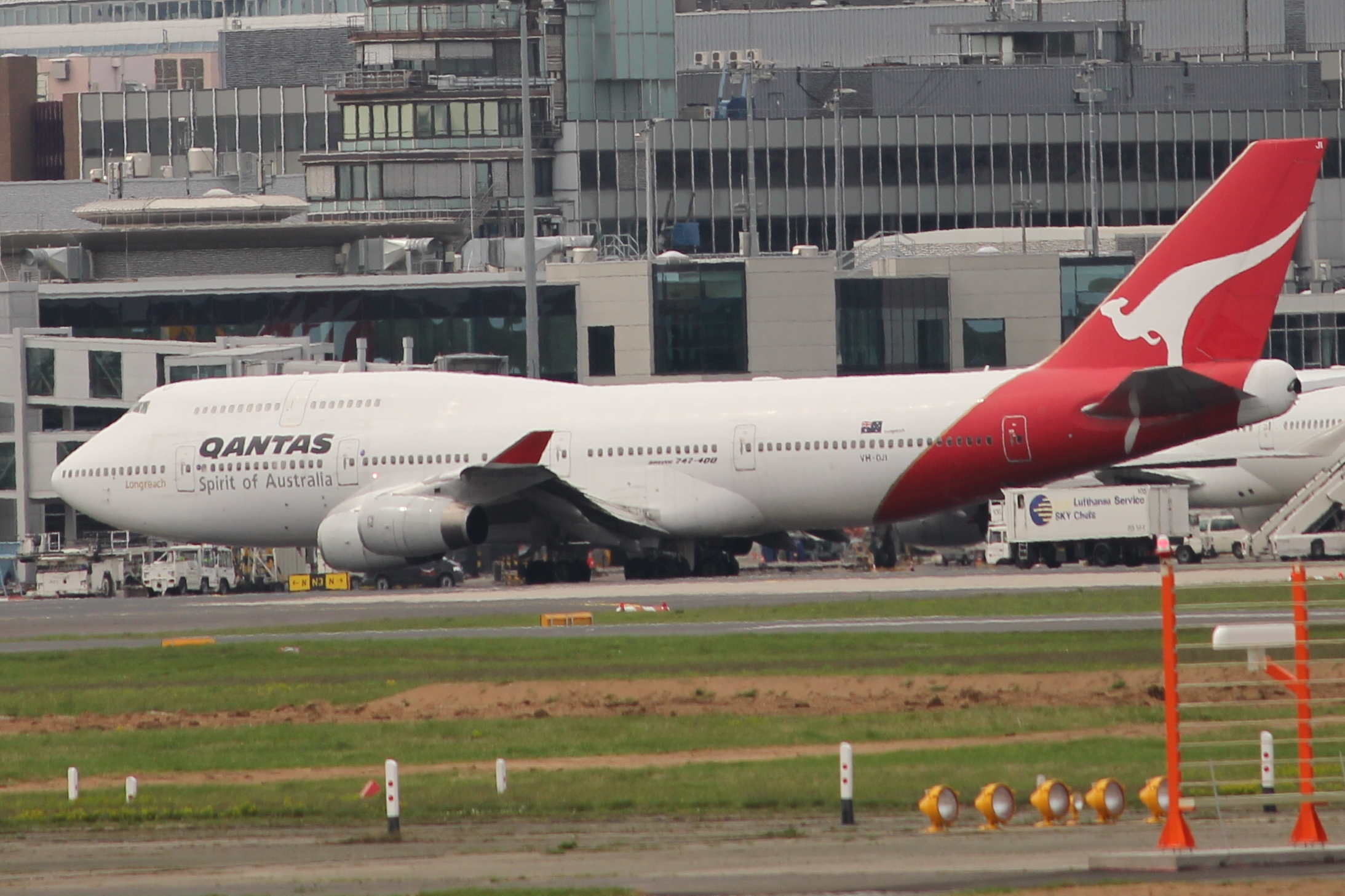 A Qantas 747-400 at Frankfurt Airport